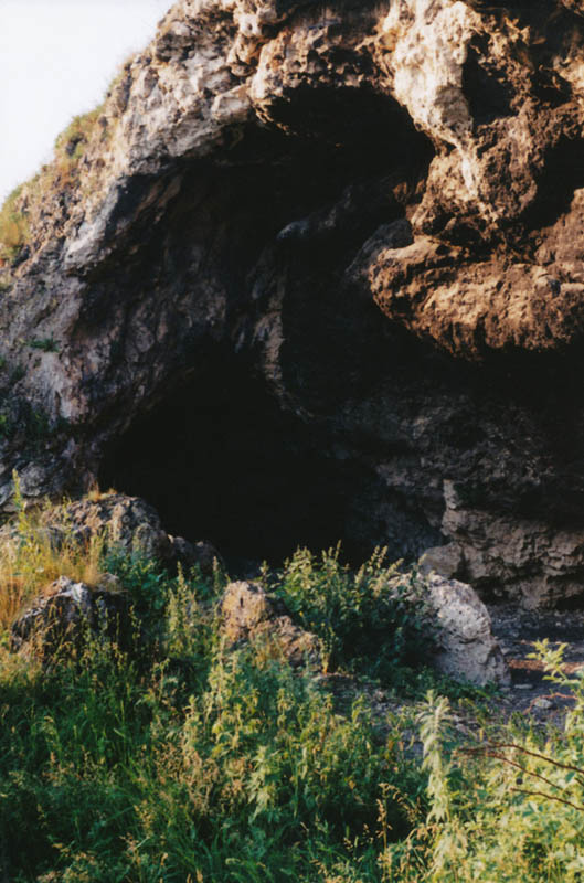 Western slope of the canyon near the village of Duruitoarea Veche. The southern slope of the cave in the Duruitoarea Veche Riscani district. Primitive man parking (6 million years ago). Here were conducted excavations.